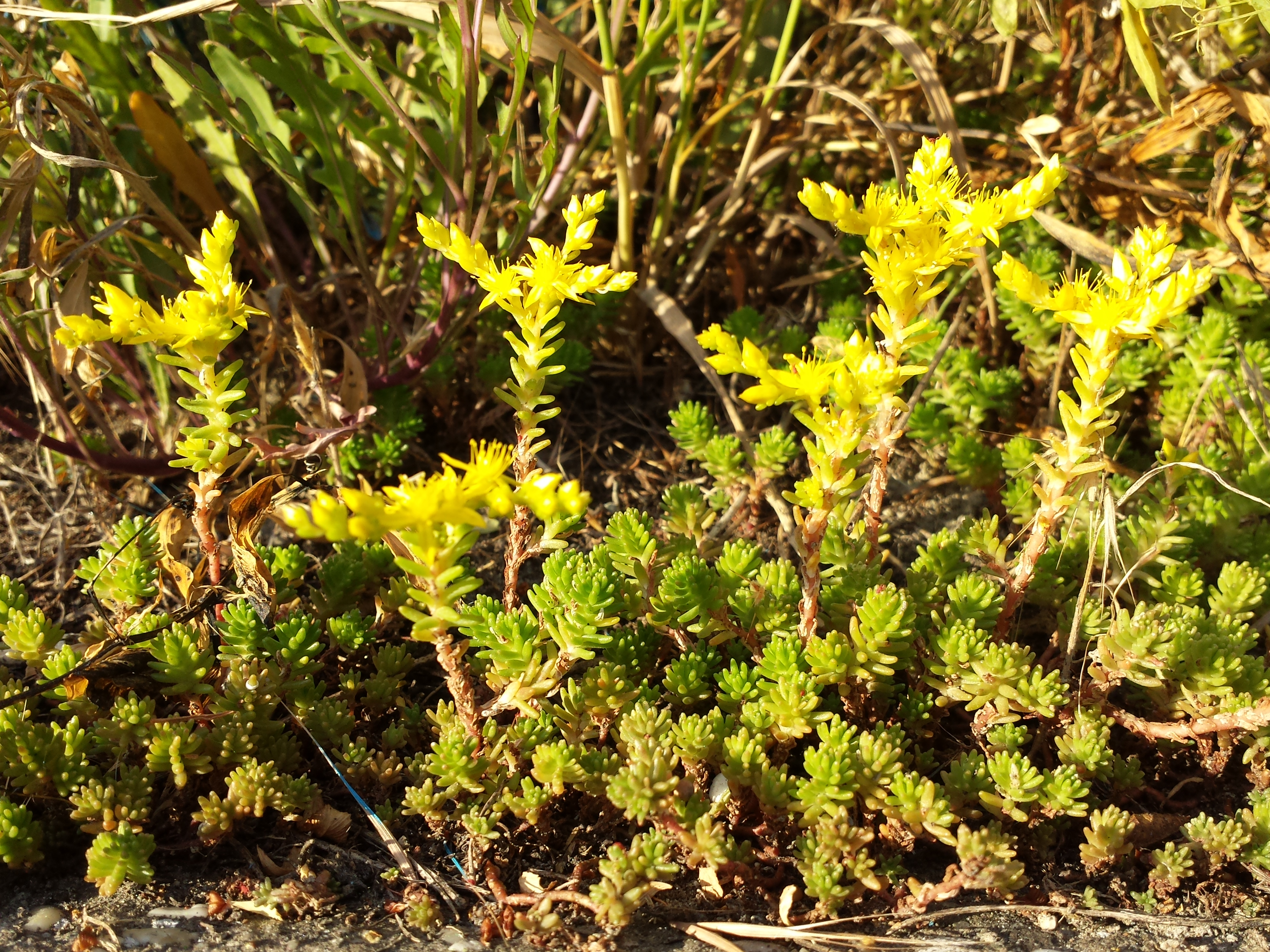 Habitus Taxonym: Sedum sexangulare ss Fischer et al. EfÖLS 2008 ISBN 978-3-85474-187-9 Location: Neue Donau, Vienna-Floridsdorf - ca. 160 m a.s.l. Habitat: crest